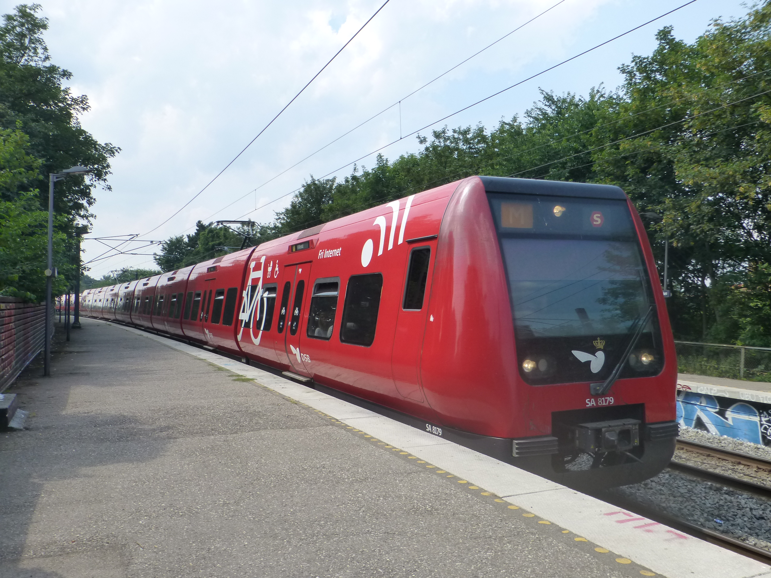 The temporary S-train line M arriving at Fuglebakken Station in Copenhagen.